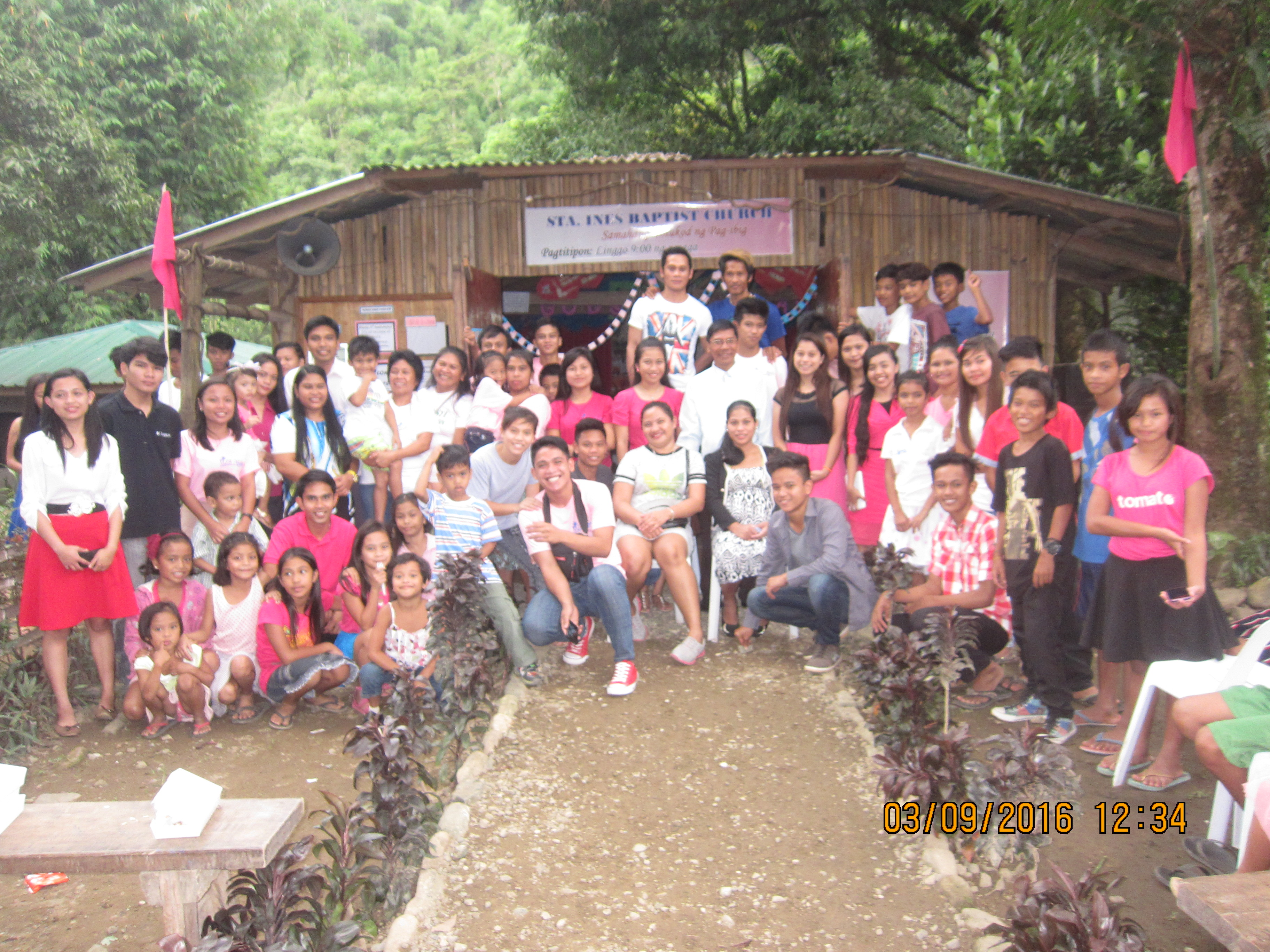 Conquer Our Mission Field For Christ